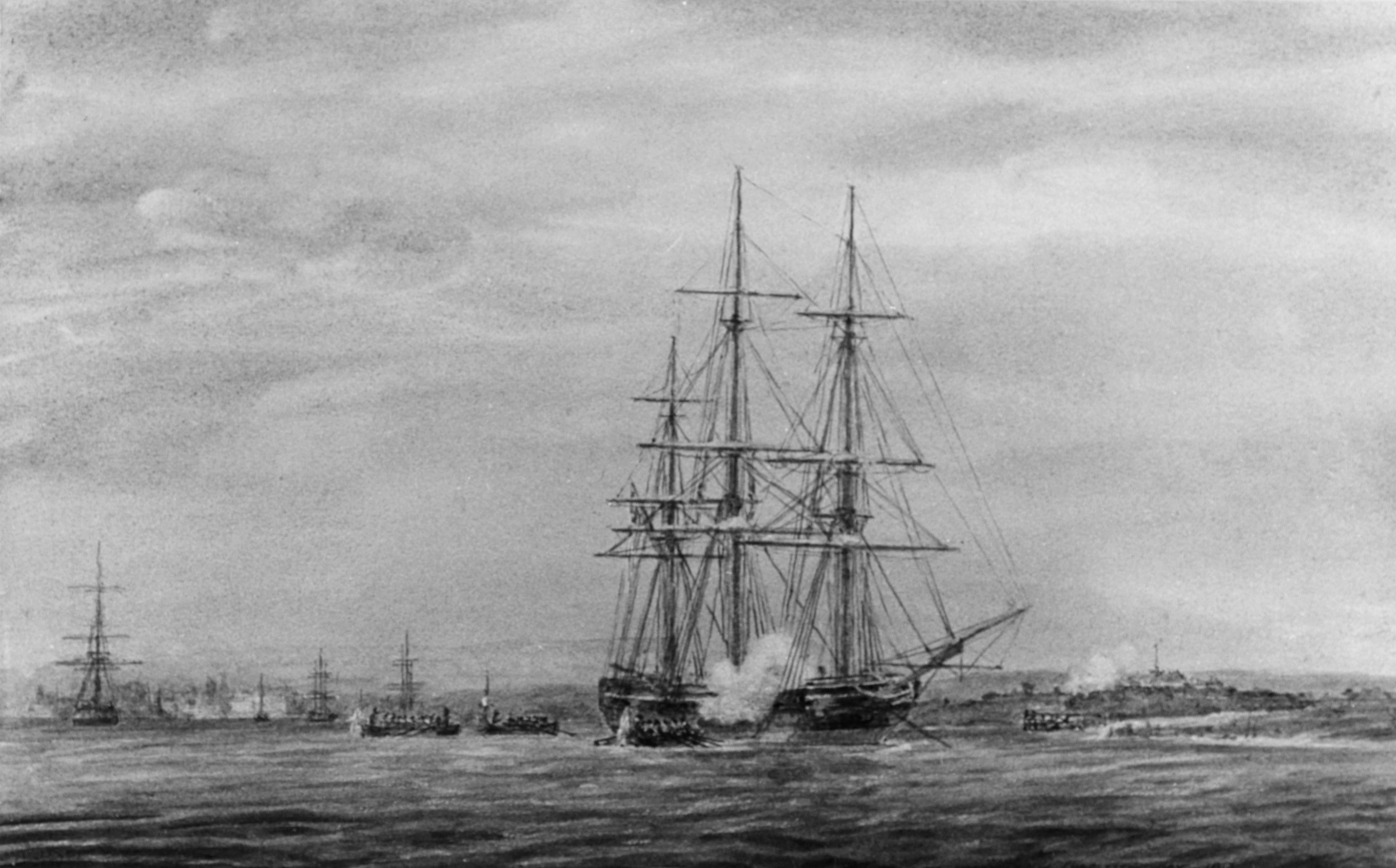 Watercolour showing the Royal Navy Cruizer-class brig-sloop HMS Moselle in Charleston Bay. In 1813 the boats of the HMS Moselle, under the command of acting Lieutenant Joseph Hyett, captured a 600 ton U.S. merchantman near the fort in Charleston Bay.